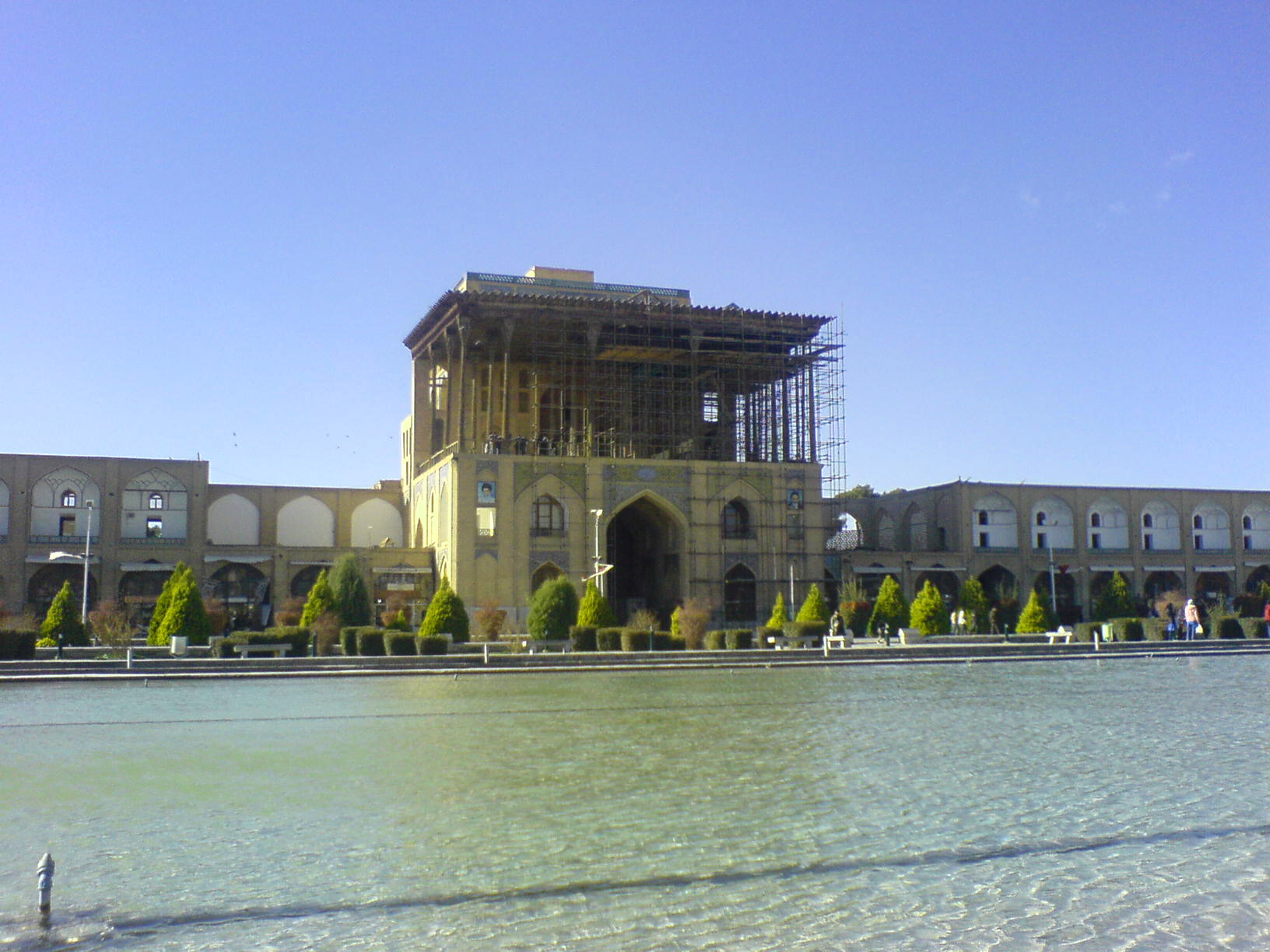 Ali Qapu, Isfahan